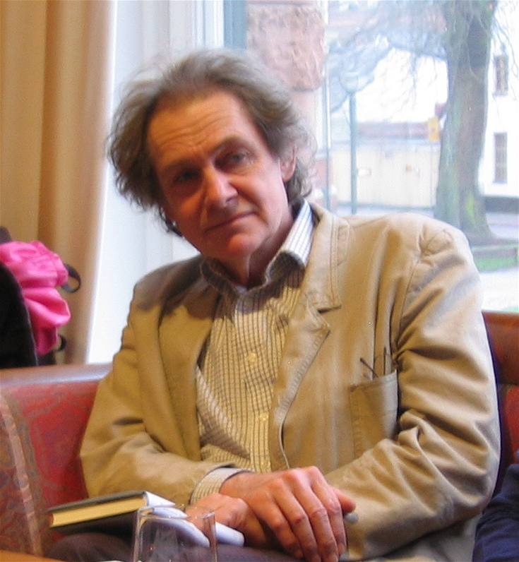 Andrzej Ploski (born 1949), Polish-born Swedish artist and illustrator; seen here at the relaese of a collection of essays by Hans-Uno Bengtsson at Grand Hotel (Lund) (the collection was illustrated by Ploski).